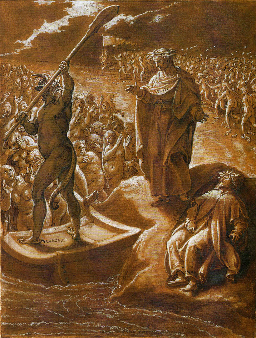 Illustration of Dante's Inferno, Canto 3 (2 of 2)